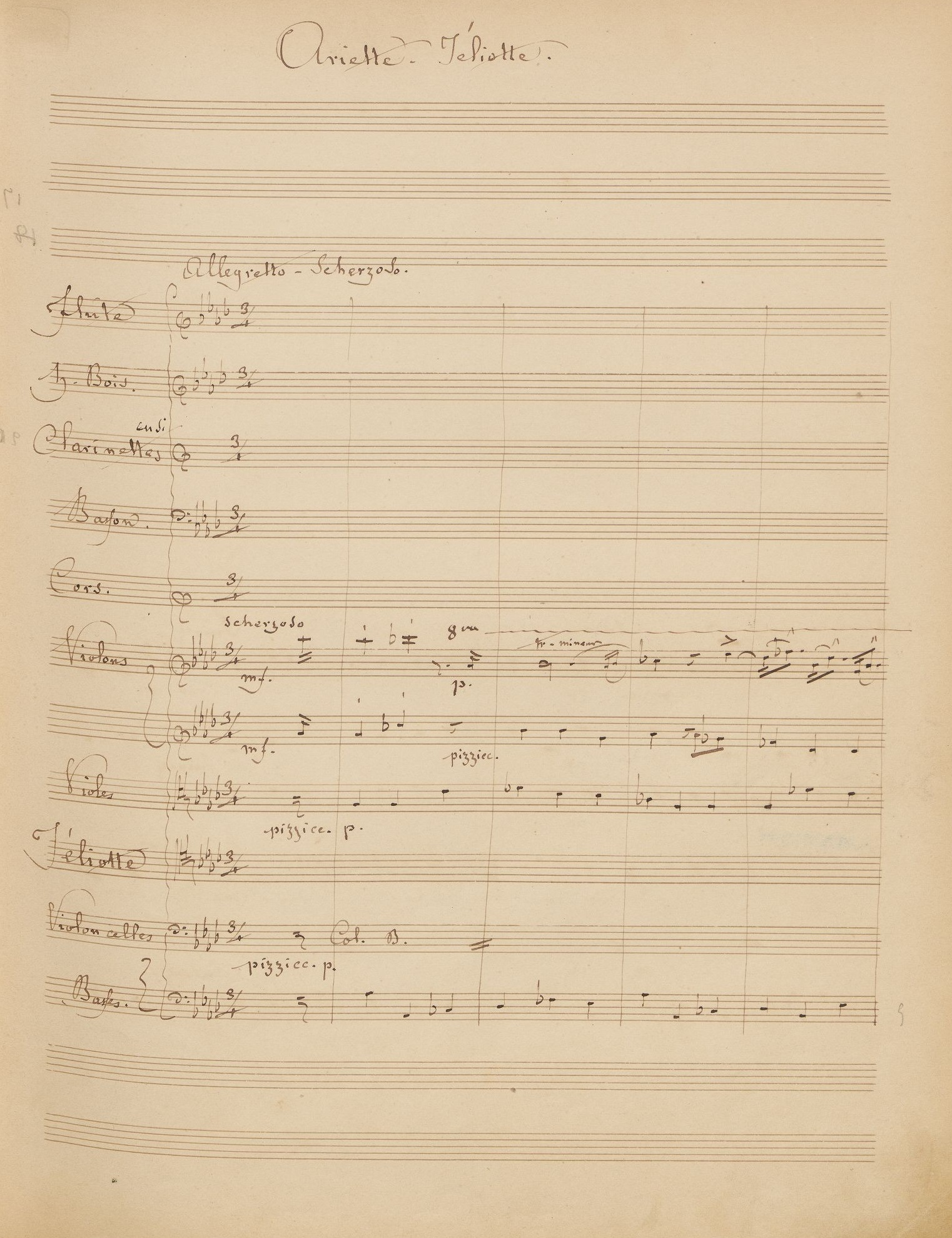 Page 181 ("Ariette. Jéliotte") of the manuscript to Jéliotte: opéra, 1853, by Gilbert-Louis Duprez (1806-1896). M1500.D935 J4 1853, Houghton Library, Harvard University